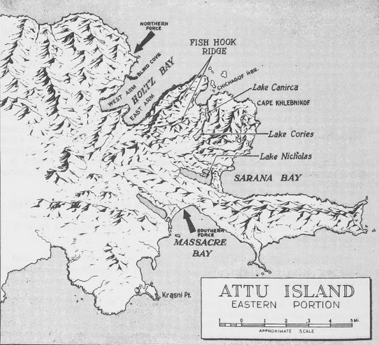 Battle of Attu island, U.S. Army map